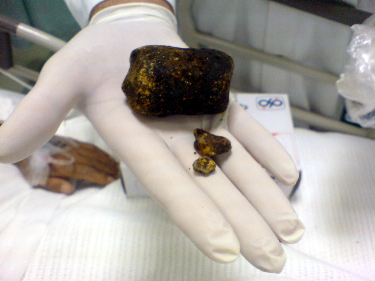 This very large gallstone was removed from patient in King Saud Medical City in Riyadh, Saudi Arabia